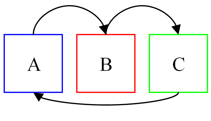 Zeroth law of thermodynamics